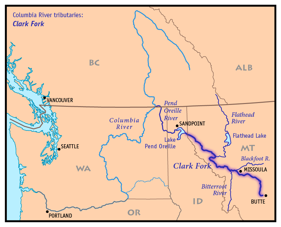 Locator map of the Clark Fork river — in Montana and Idaho. Credits I, Pfly, created it based on USGS and Digital Chart of the World data.